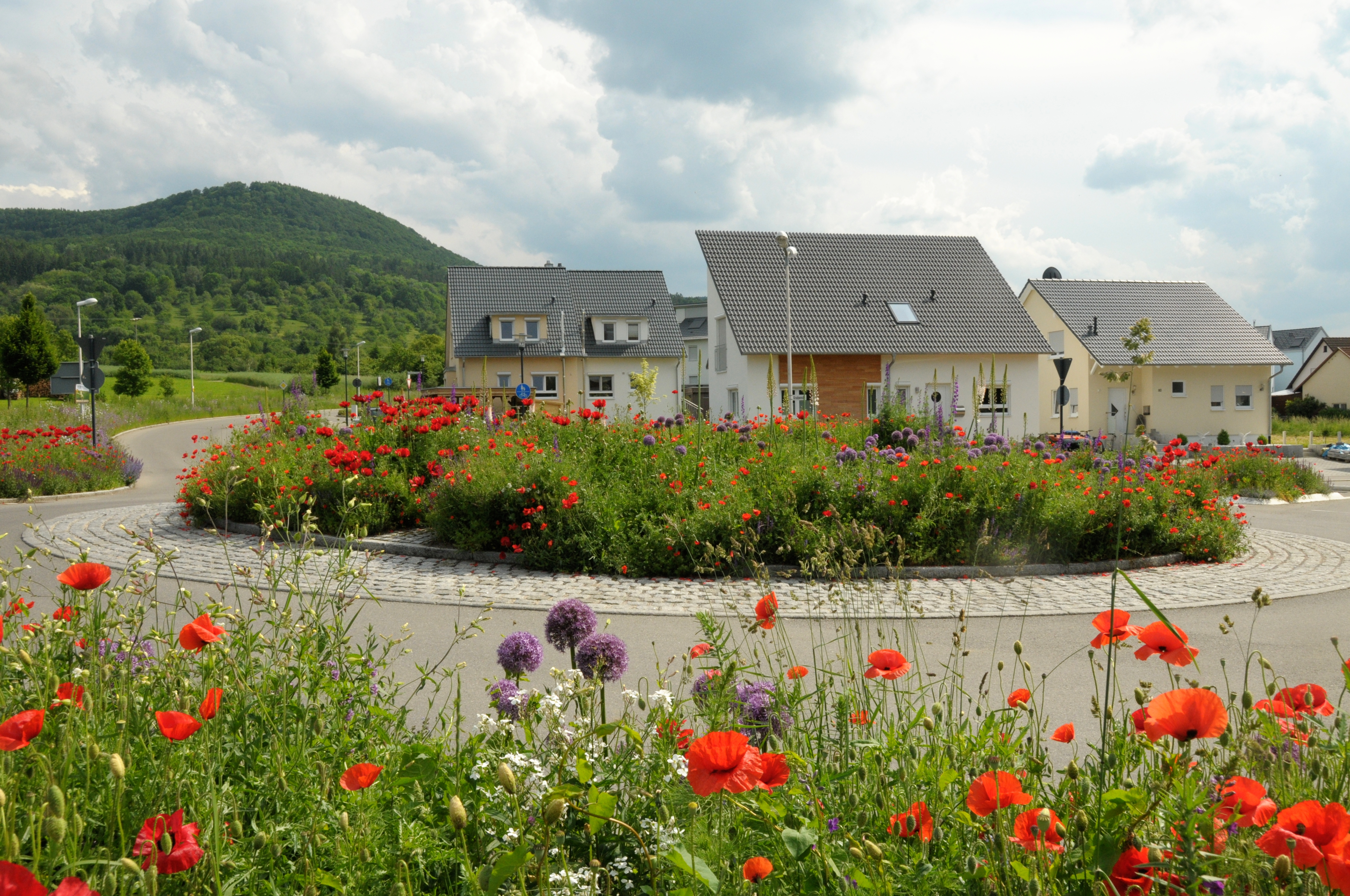 Roundabout in the city of flowers Mössingen.